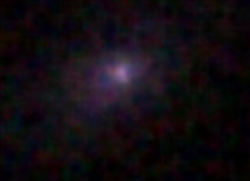 Galaxy NGC 59